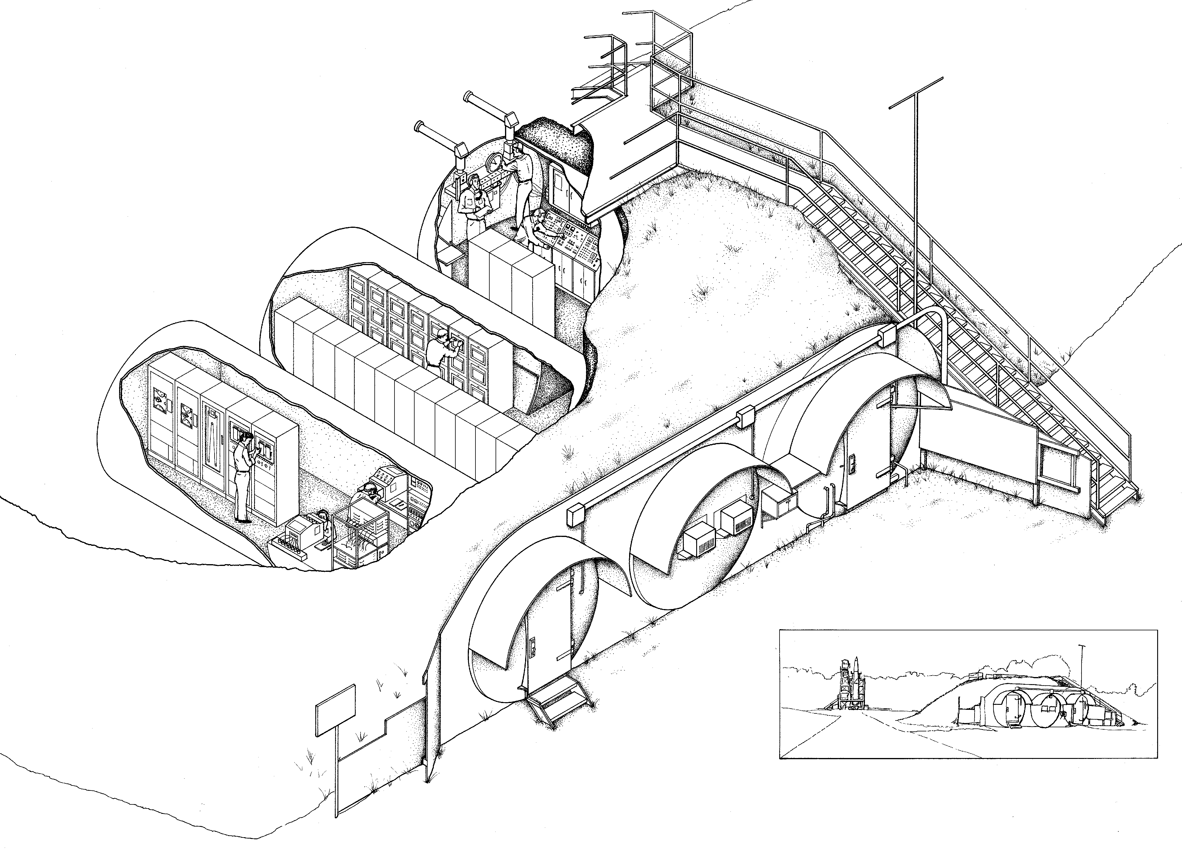 Detail from the original drawing. This drawing is from the Historic American Engineering Record Historic American Buildings Survey/Historic American Engineering Record/Historic American Landscapes Survey (Library of Congress); it was drawn by Michael E. Pugh, Summer 1995; it contains a cut-away view of the bunkers. Library of Congress, HAER ALA,45-HUVI.V,7A- This image is available from the United States Library of Congress's Prints and Photographs division under the digital ID hhh.al1184. This tag does not indicate the copyright status of the attached work. A normal copyright tag is still required. See Commons:Licensing for more information. Drawing Title: MARSHALL SPACE FLIGHT CENTER, REDSTONE ROCKET TEST STAND Sheet 6 of 7 Title of Historic Landmark: Marshall Space Flight Center, Redstone Rocket (Missile) Test Stand, Dodd Road, Huntsville vicinity, Madison, AL Other Title: Interim Test Stand Building No. 4665 Redstone Arsenal Medium: Measured Drawing: 34 x 44 in. Call Number: HAER ALA,45-HUVI.V,7A- Survey number HAER AL-129-A